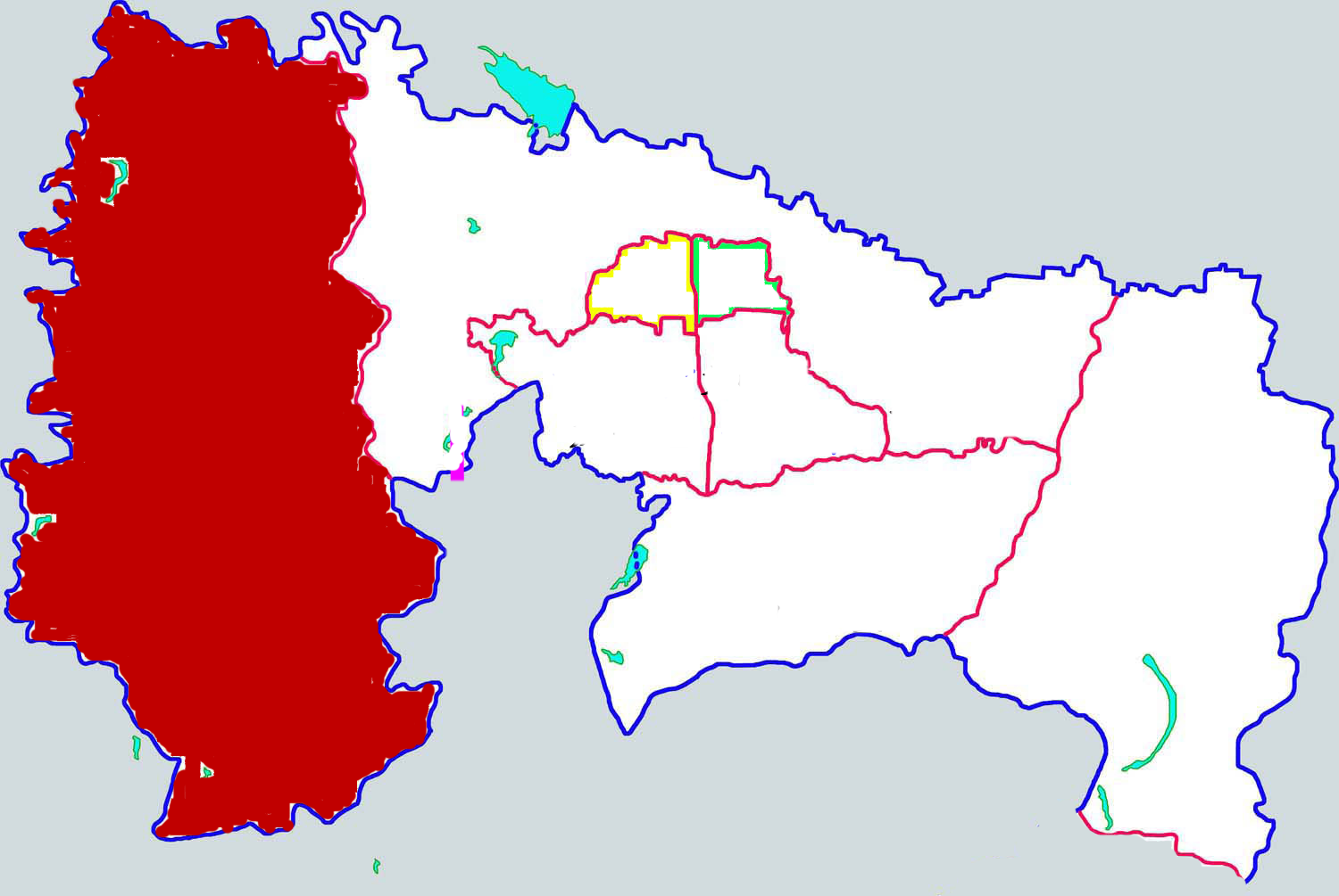 Location of Linzhou county-level city in Anyang city, China